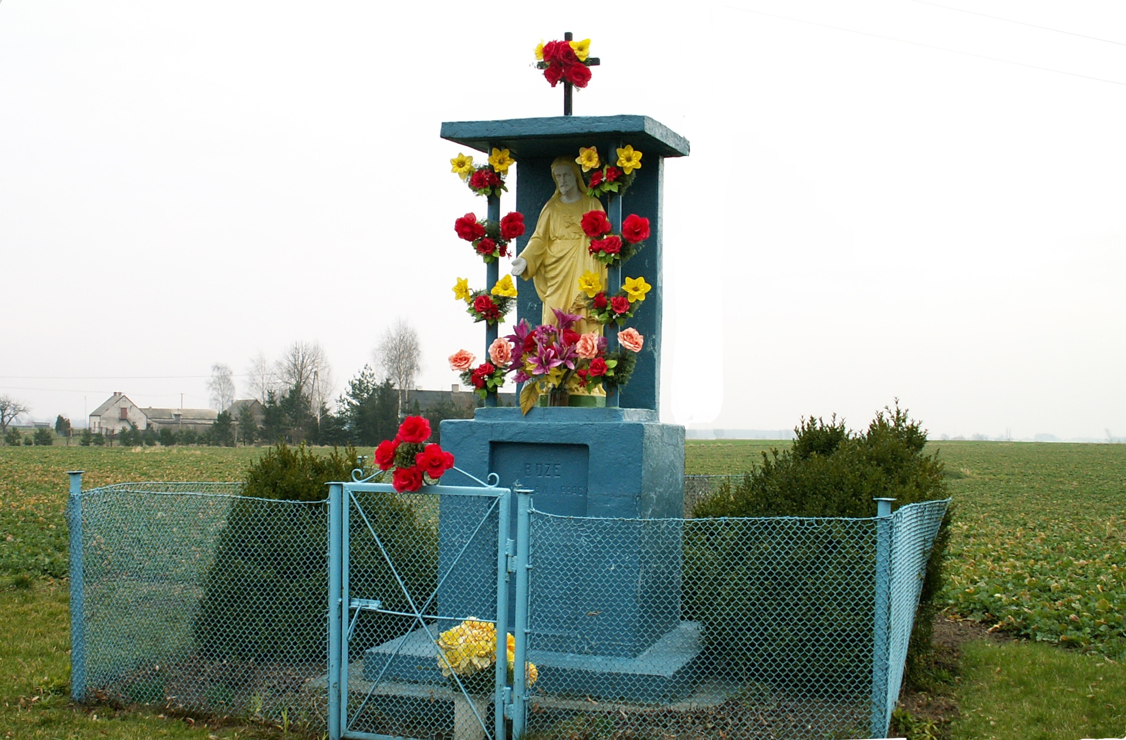 Swiesz - chapel figure about road from Byton side